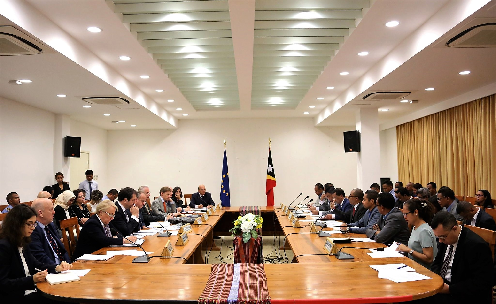 European delegation is visiting Timorese ministery for foreign affairs